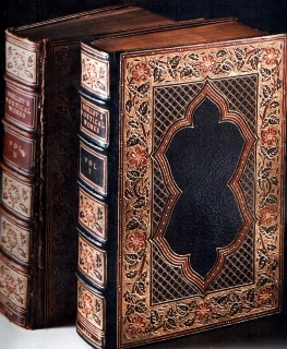 image of restored book